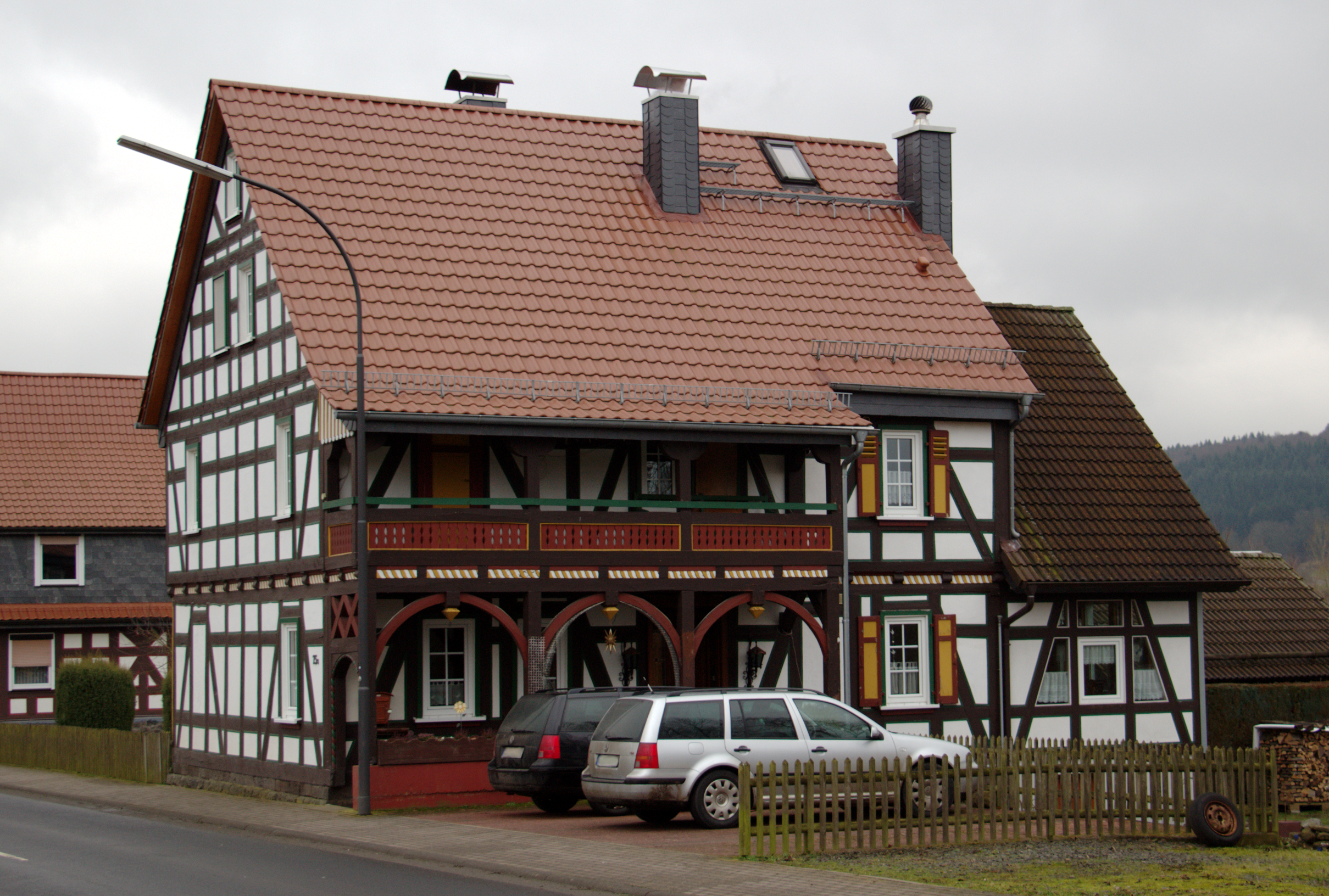 Half-timbered building in Ehringshausen Hauptstrasse 75a, Gemünden (Felda), Hesse, Germany